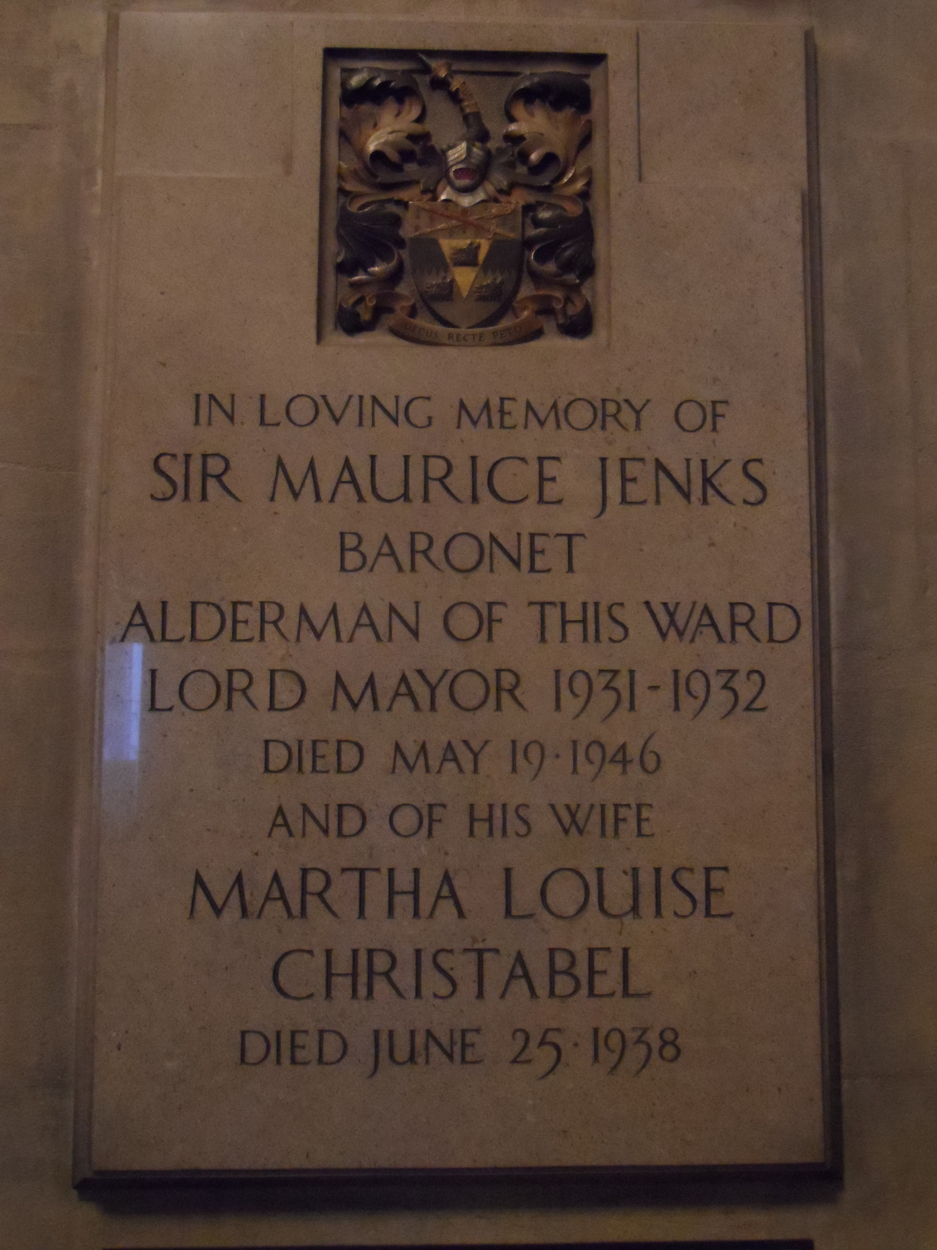 Memorial tablet to Sir Maurice Jenks in the church of St Lawrence Jewry, City of London, London, UK. IN LOVING MEMORY OFSIR MAURICE JENKSBARONETALDERMAN OF THIS WARDLORD MAYOR 1931-1932DIED MAY 19 1946AND OF HIS WIFEMARTHA LOUISECRISTABELDIED JUNE 25 1938